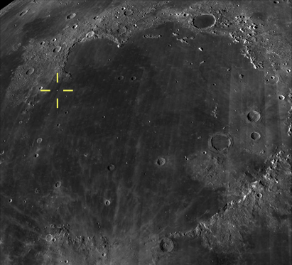 Location of landing side of Luna-17 / Lunokhod-1 and associated small craters Vasya, Nikolya, Slava, Igor, Kostya, Vitya, Gena, Borya, Valera, Kolya, Leonid, Albert. at Mare Imbrium photo.